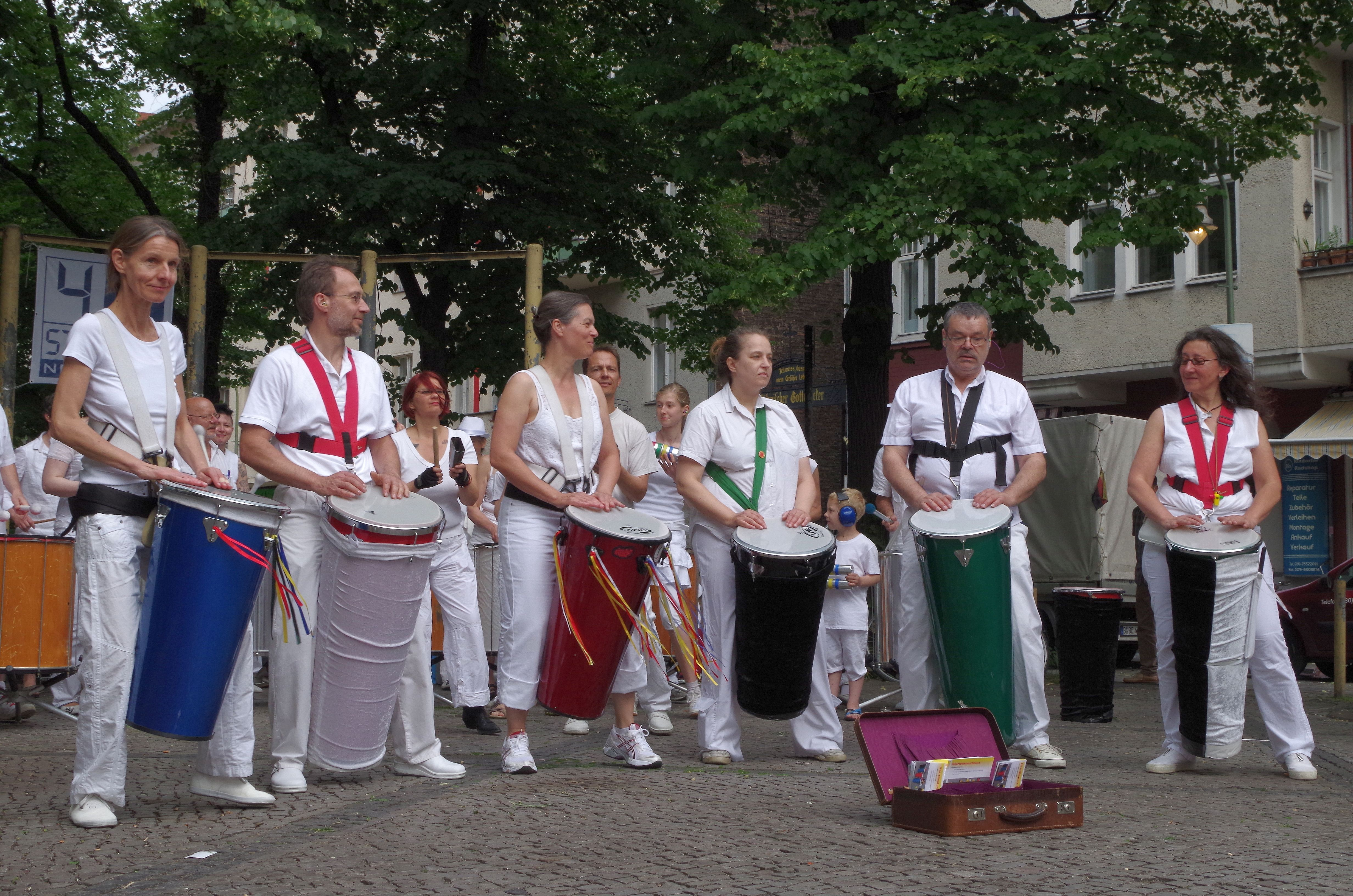 The German samba percussionist Pamela Rehfeld (r.) with her band "HeartBeaters" at the "48 Stunden Neukölln" festival 2013